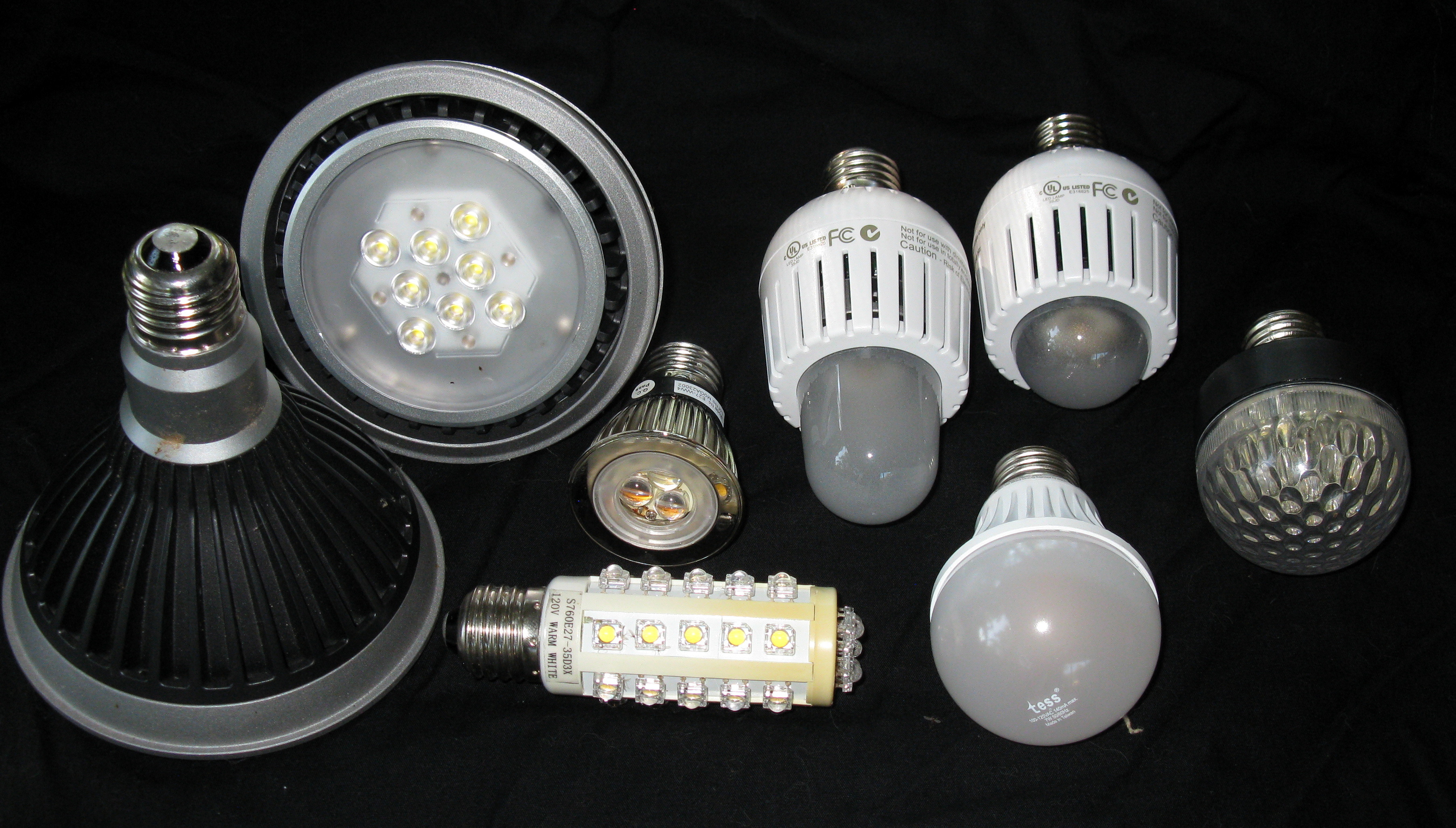 A selection of commercially available LED lamps ("light bulbs") with Edison (screw-type) base/ Photo by Geoffrey A. Landis